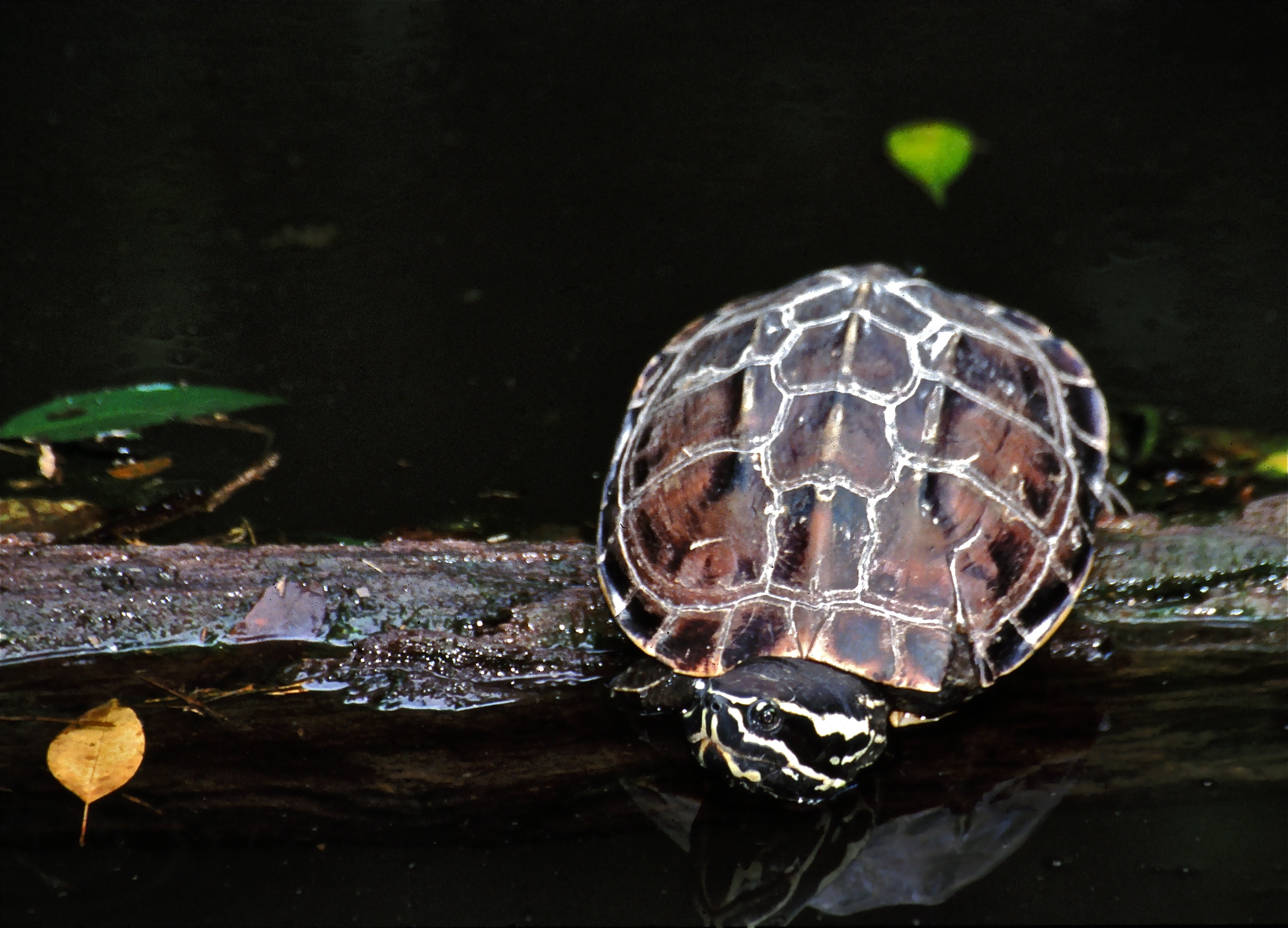 Khao Yai NP, THAILAND Scanned Slide from 2003